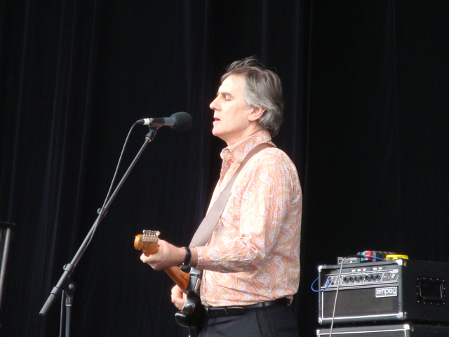 Robert Forster performing at All Tomorrow's Parties, Mt Buller, Victoria, Australia.